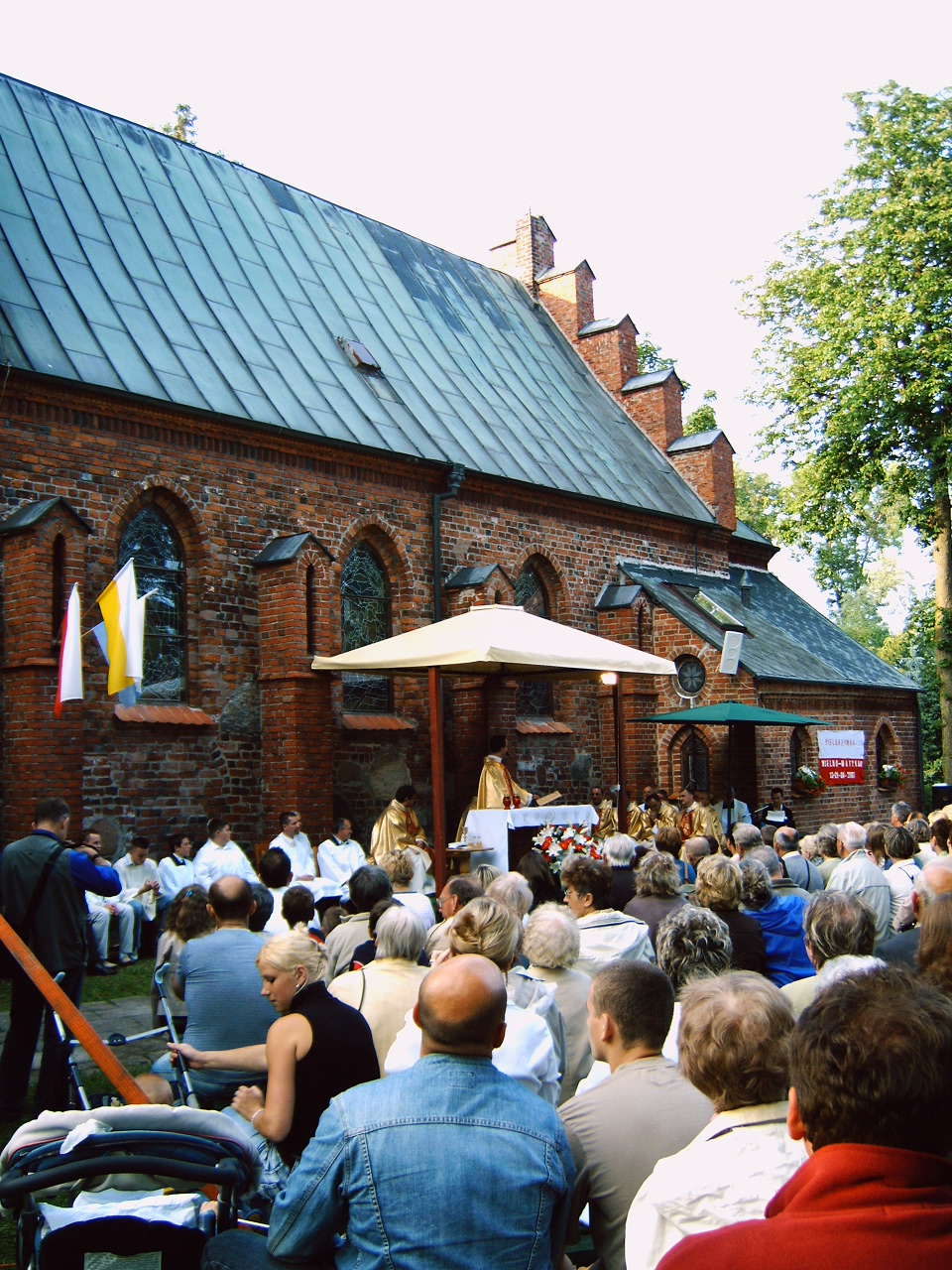 Poland, Mielno, Mass near the church